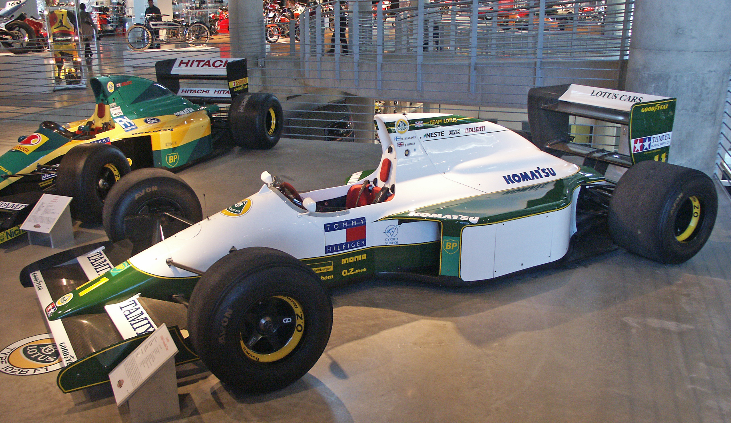 Lotus 102B (1991) at the Barber Vintage Motorsports Museum in Leeds, Alabama, USA.